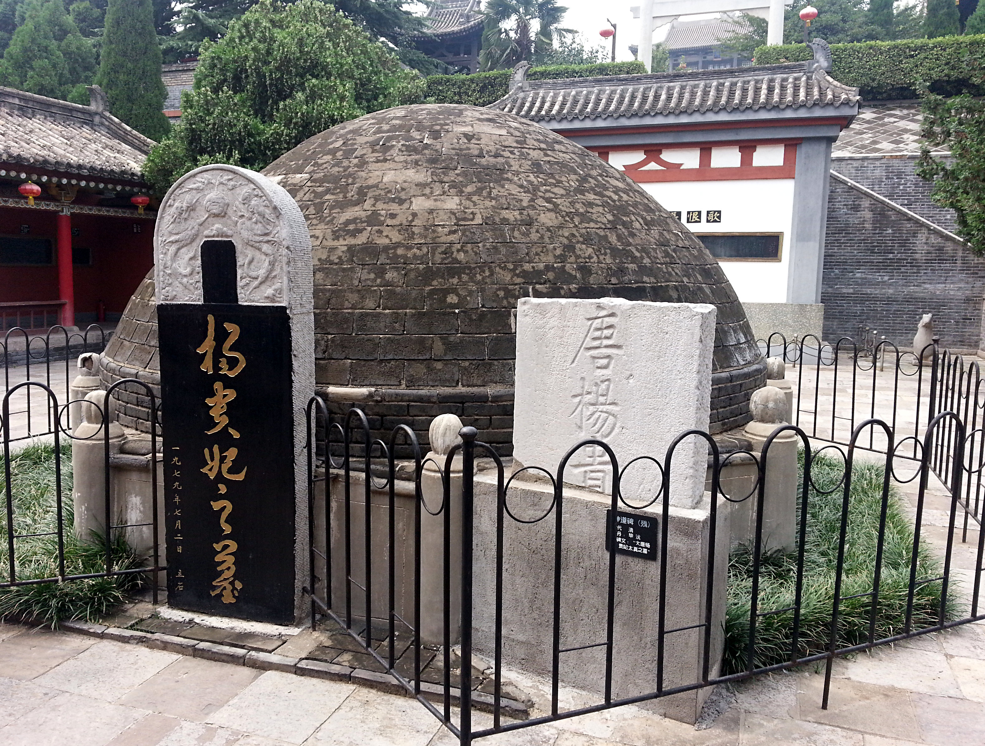 Photograph of the tomb of Yang Guifei.